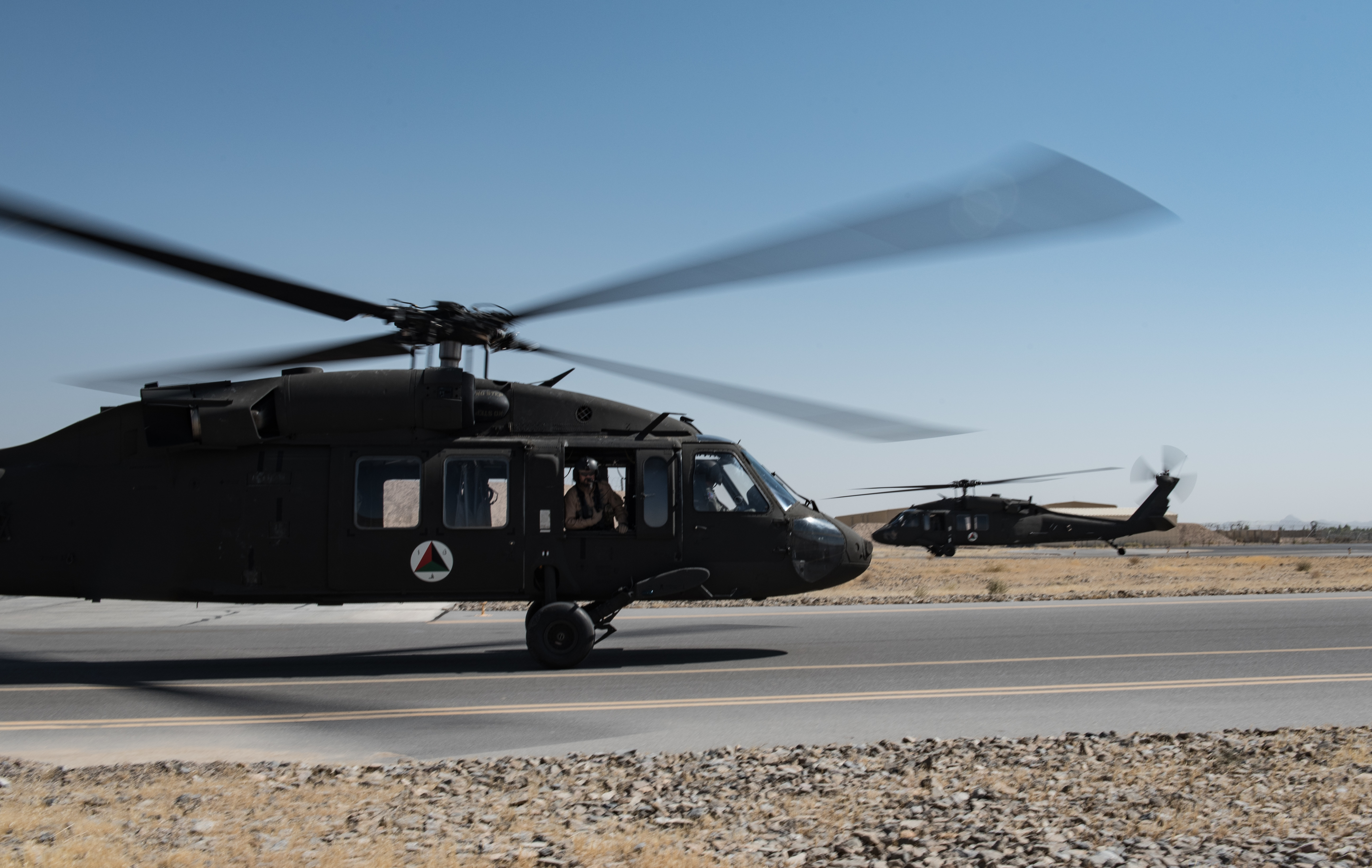 Two Afghan UH-60A Black Hawks pass on the taxiway Oct. 3, 2017, at Kandahar, Airfield. Afghan aviators are taking part in the first UH-60 flight training class after the Afghan Air Force recived the first shipment of helicopters Sept. 18, as part of the AAF's modernization plan. (U.S. Air Force photo by Staff Sgt. Alexander W. Riedel)